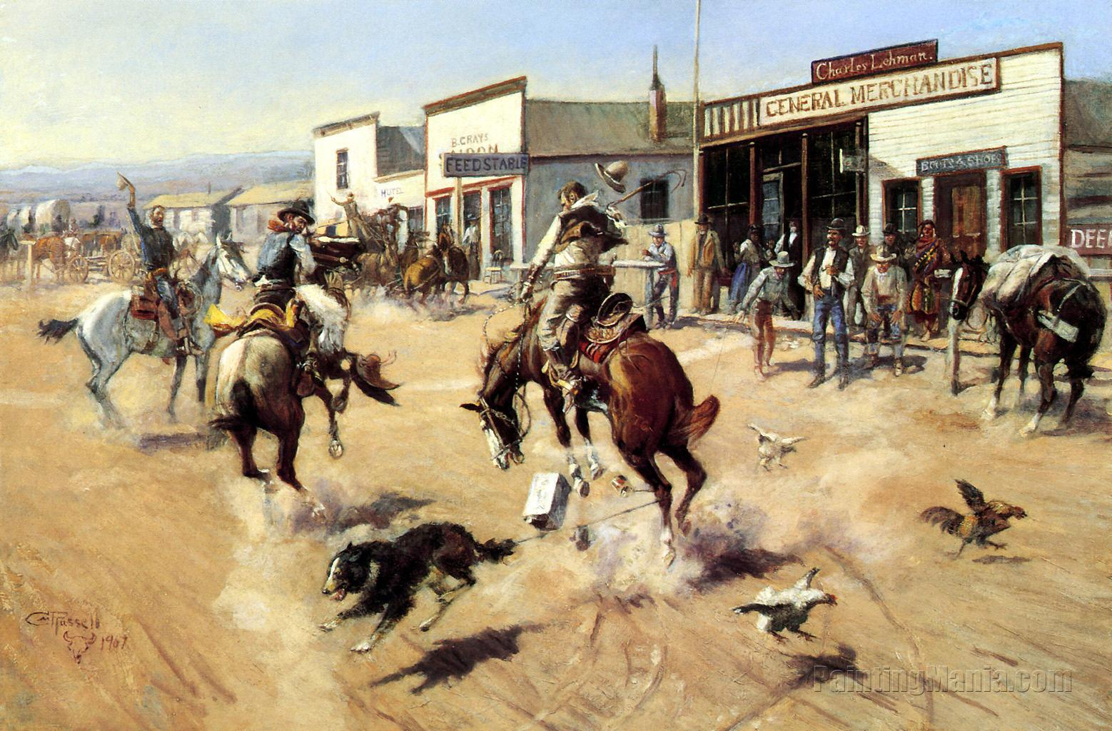 "A Quiet Day In Utica", originally called "Tinning A Dog", Oil, 1907. C.M. Russell, Sid Richardson Museum, Fort Worth, TX